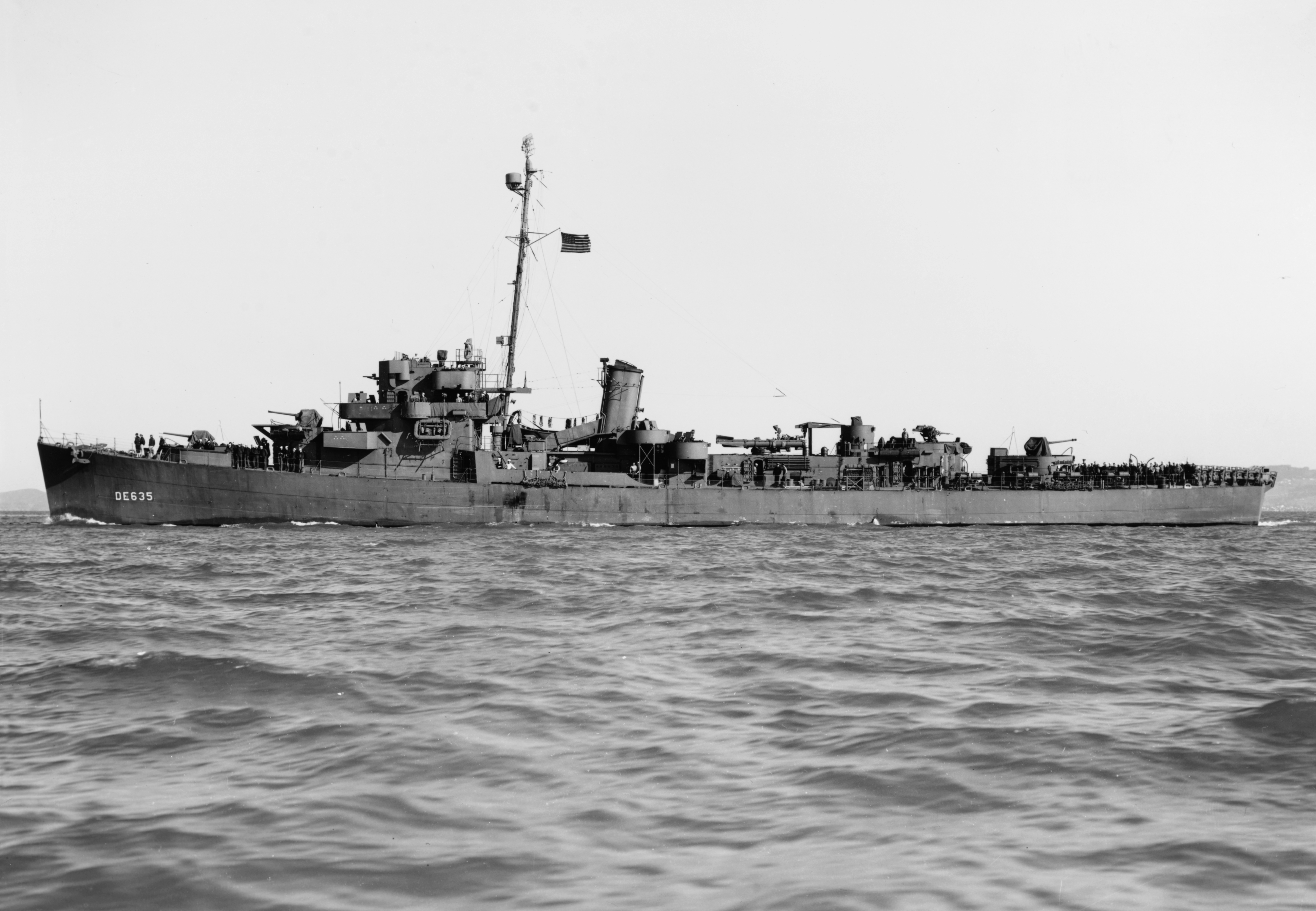 The U.S. Navy destroyer escort USS England (DE-635) off San Francisco, California (USA), on 9 February 1944.